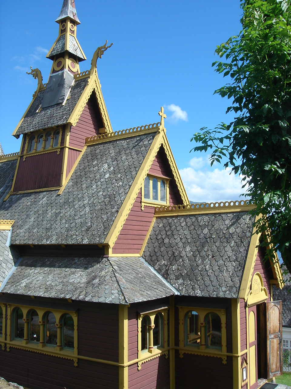 St. olafs church Balestrand